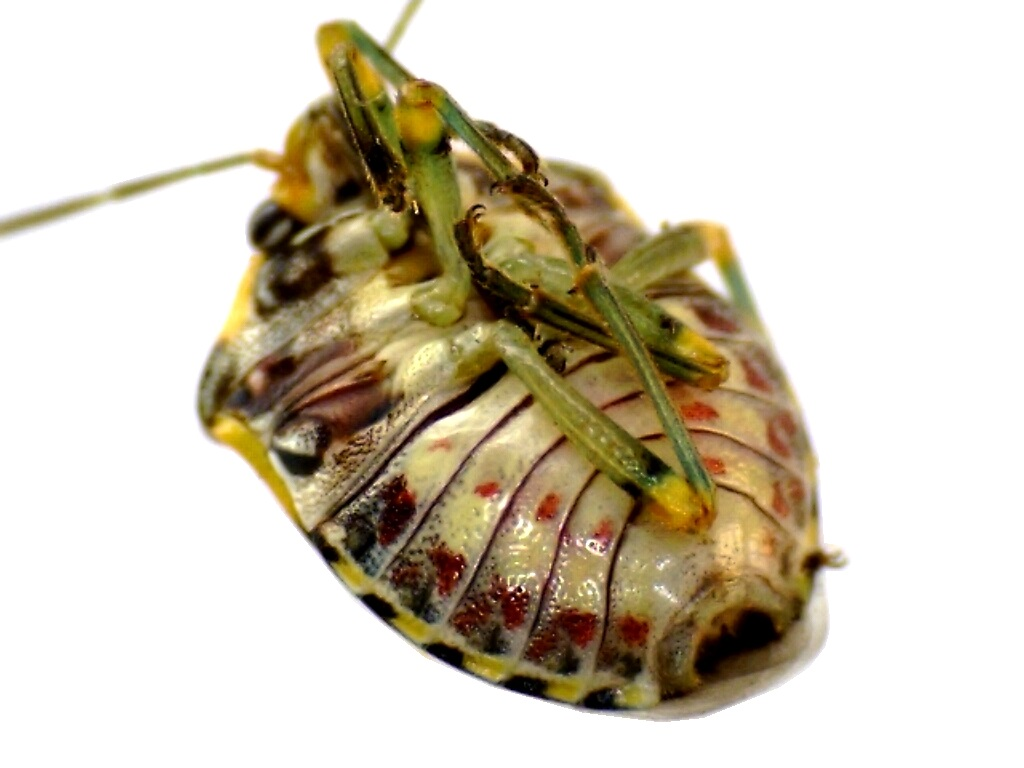 An antestia bug (Antestiopsis orbitalis) upside down (antestiopsis) (Sorry for poor quality - taken with a USB microscope)